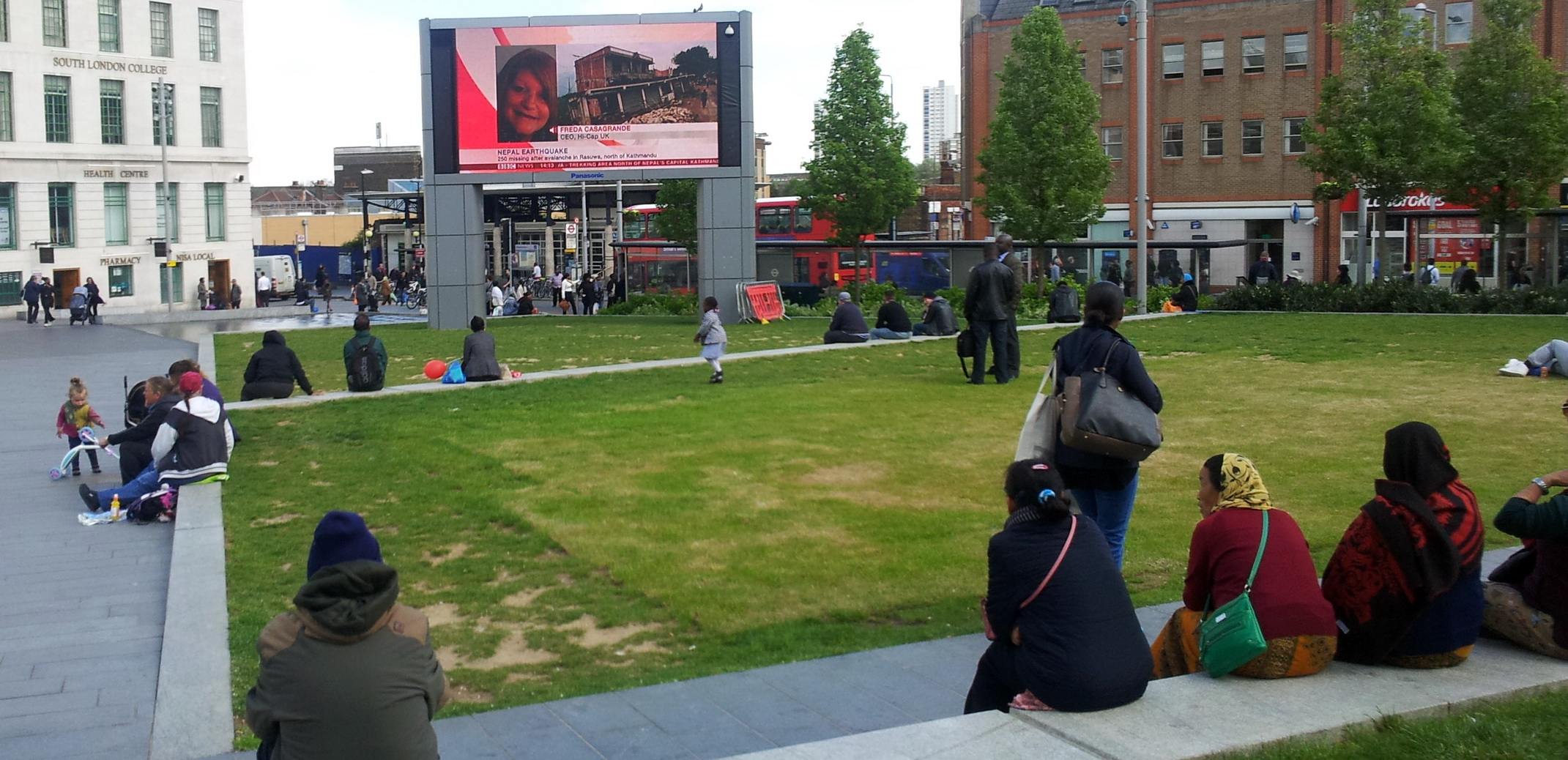 View of General Gordon Square in the centre of Woolwich, South East London. To the left the Woolwich Equity Building.